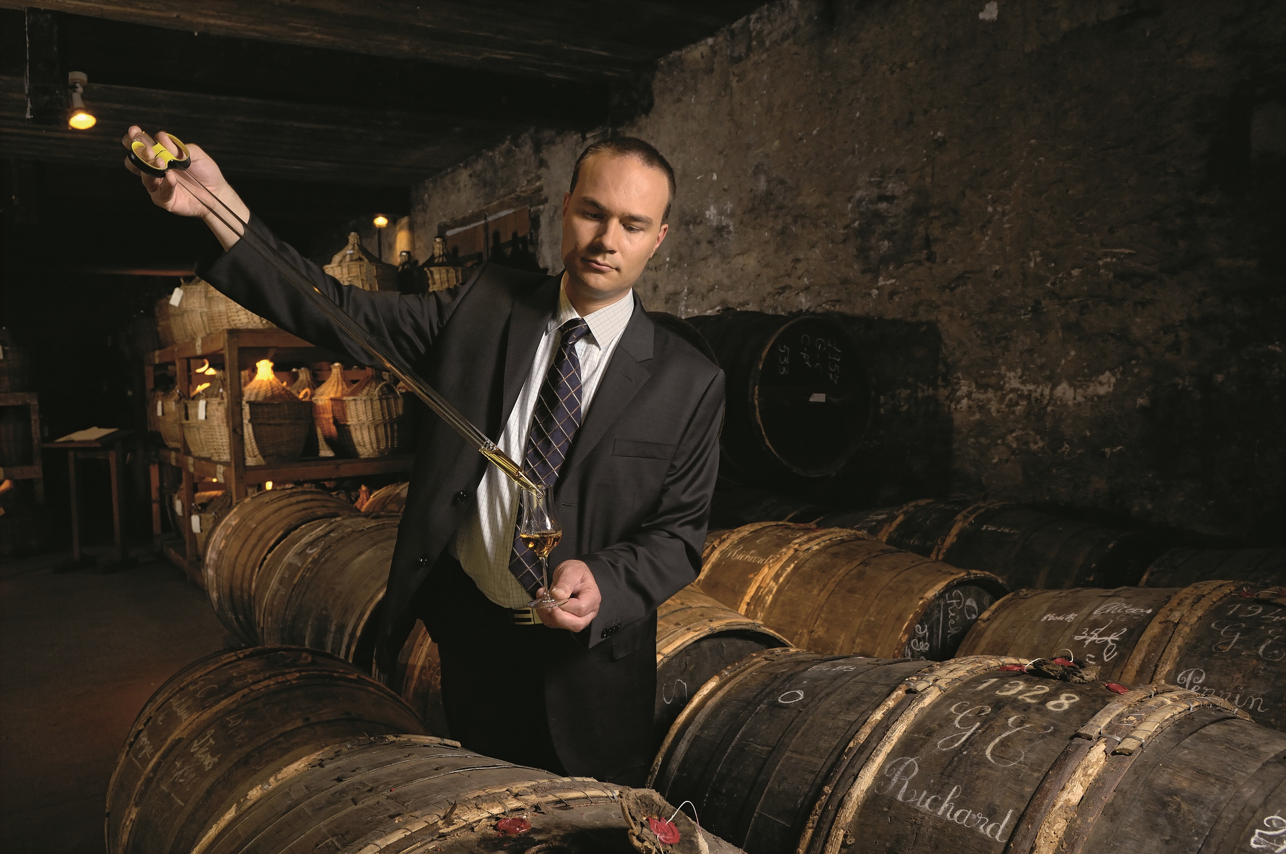 Master cellar